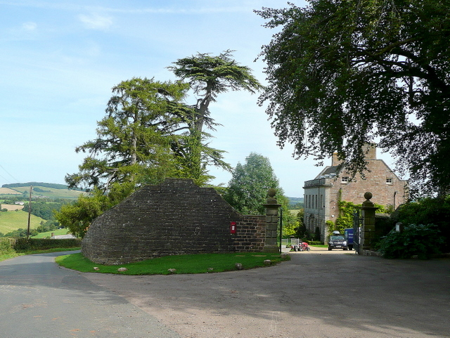 Eastbach Court Looking north through the main gate.